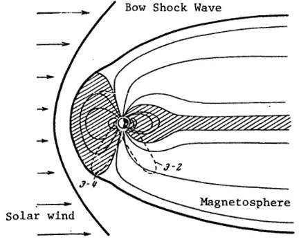 The orbits of satellites Elektron 2 and 4 with respect to the Earth's magnetosphere